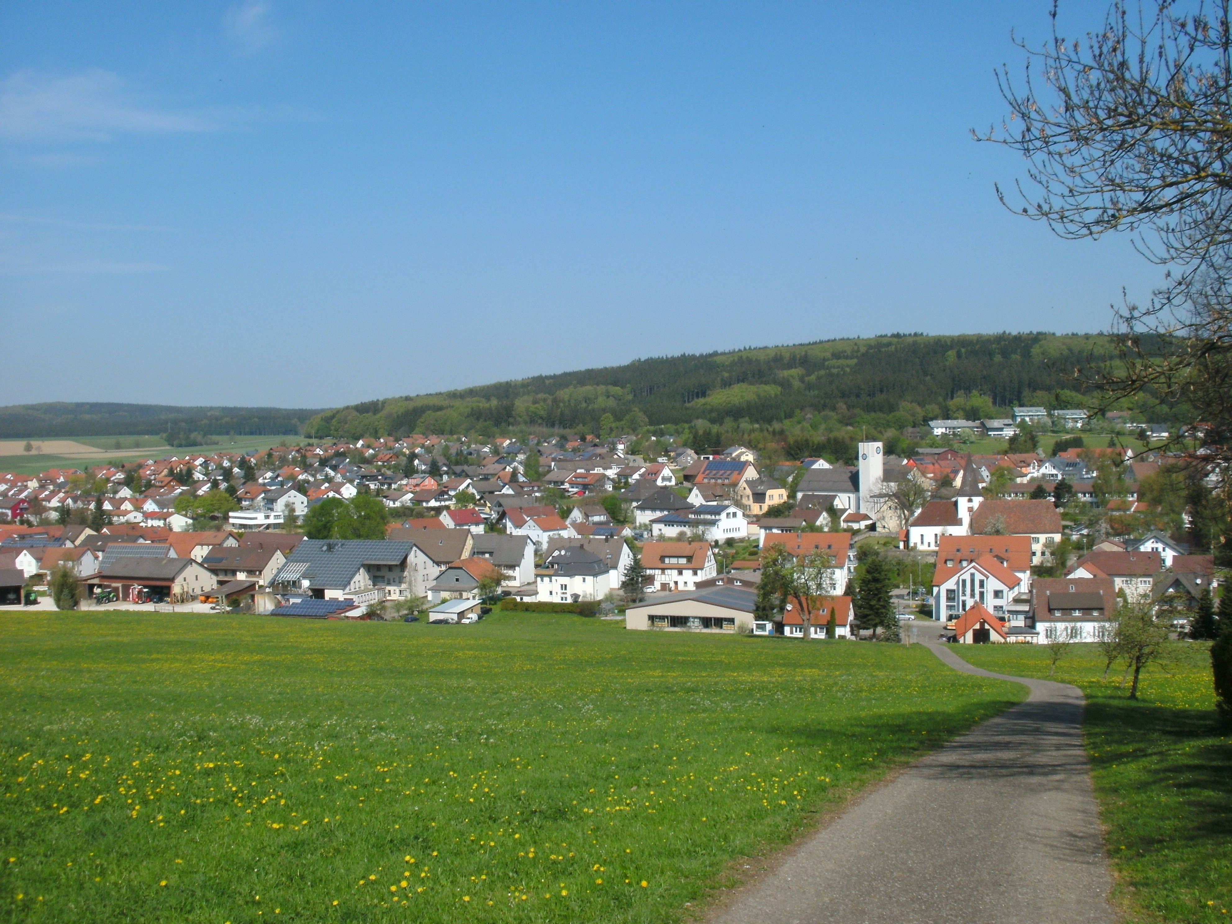 View on Bartholomä (Baden-Württemberg, Germany)